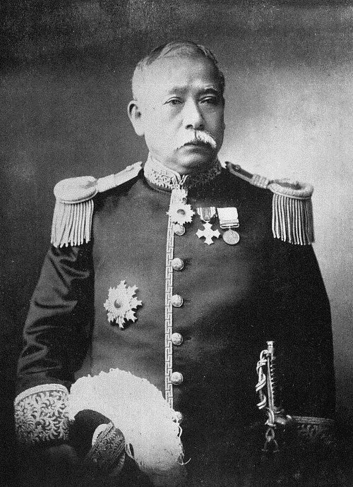 Rempei Kondo